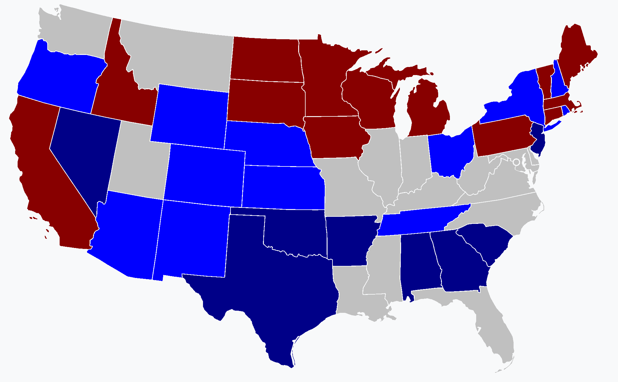 A map showing the results of the 1922 United States Gubernatorial elections